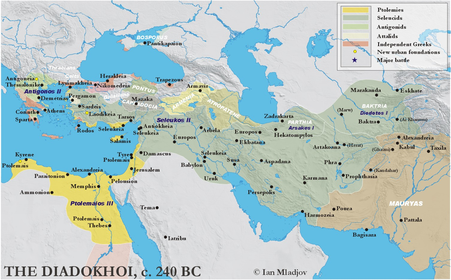 Map of the Hellenistic world 3rd century BCE (240 BC)